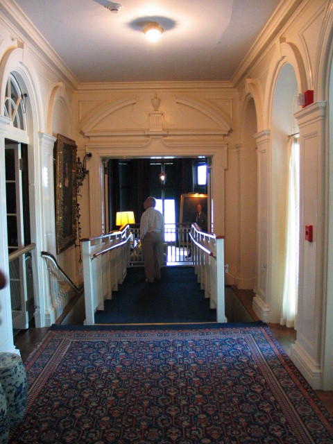 The Entrance Hall is a house where F.D.Roosevelt lived.